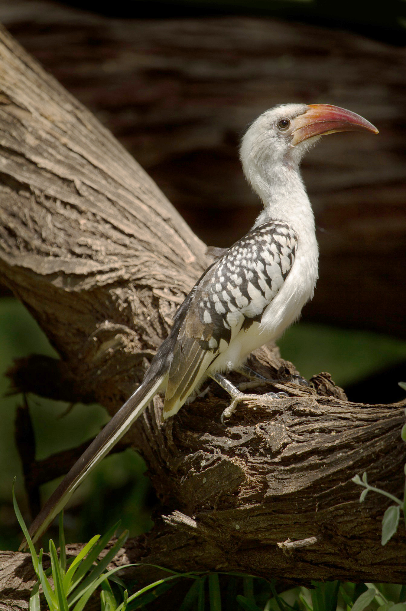 At Samburu National Reserve